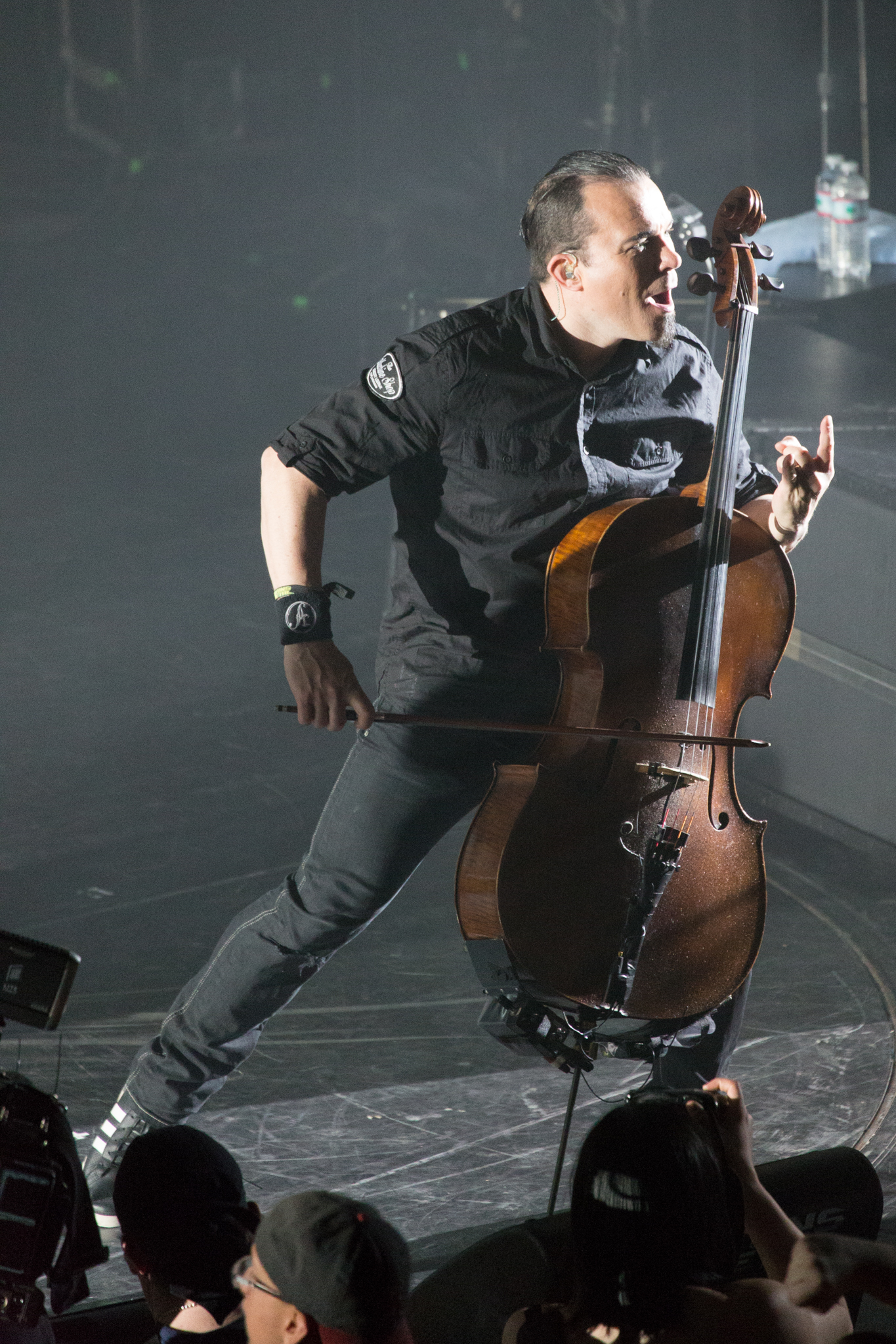 Apocalyptica performing at 70.000 tons of metal, january 2015